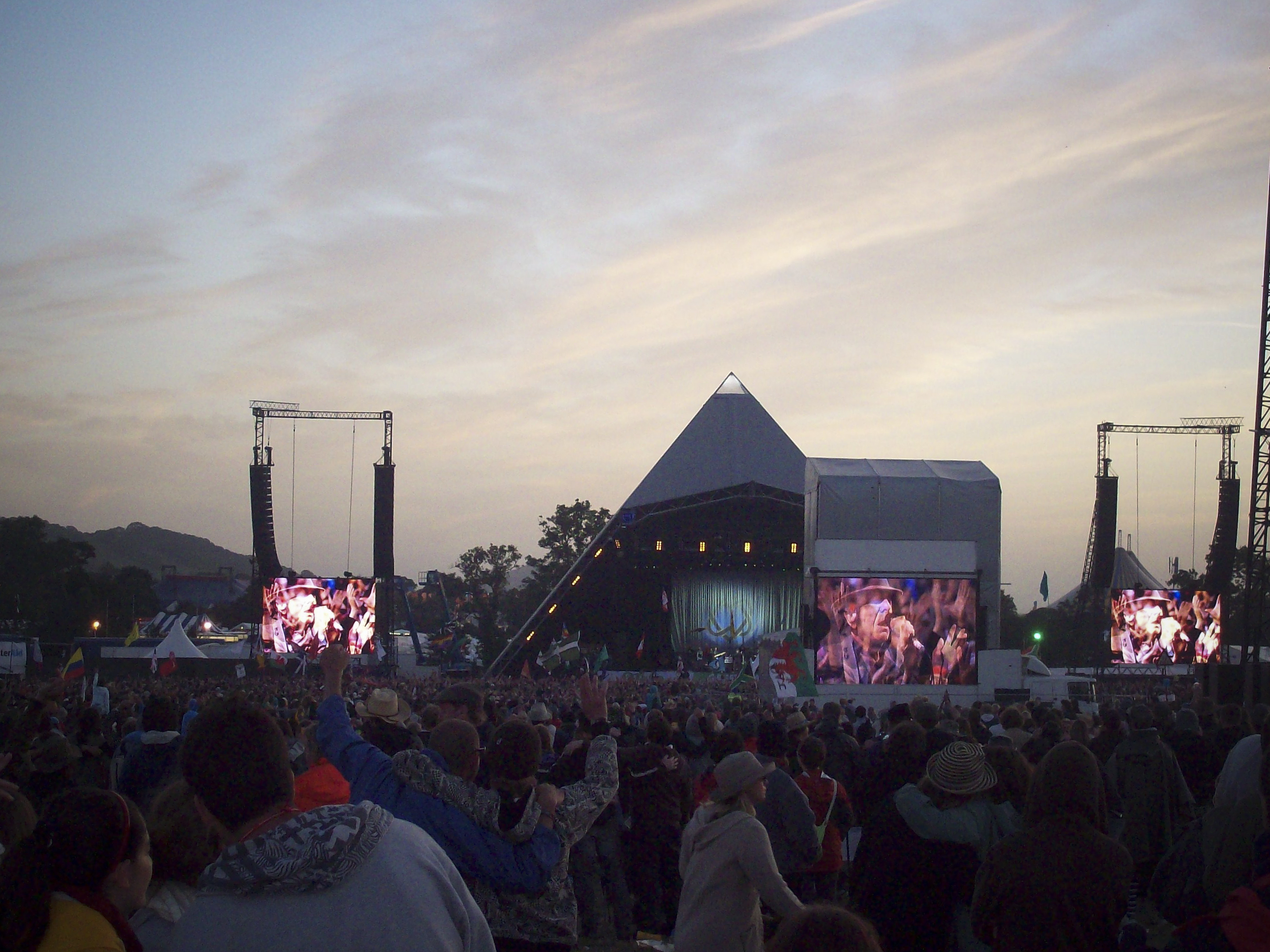 Glastonbury Festival, Pilton, Somerset The sun sets behind the Pyramid Stage as Leonard Cohen performs 'Hallelujah'